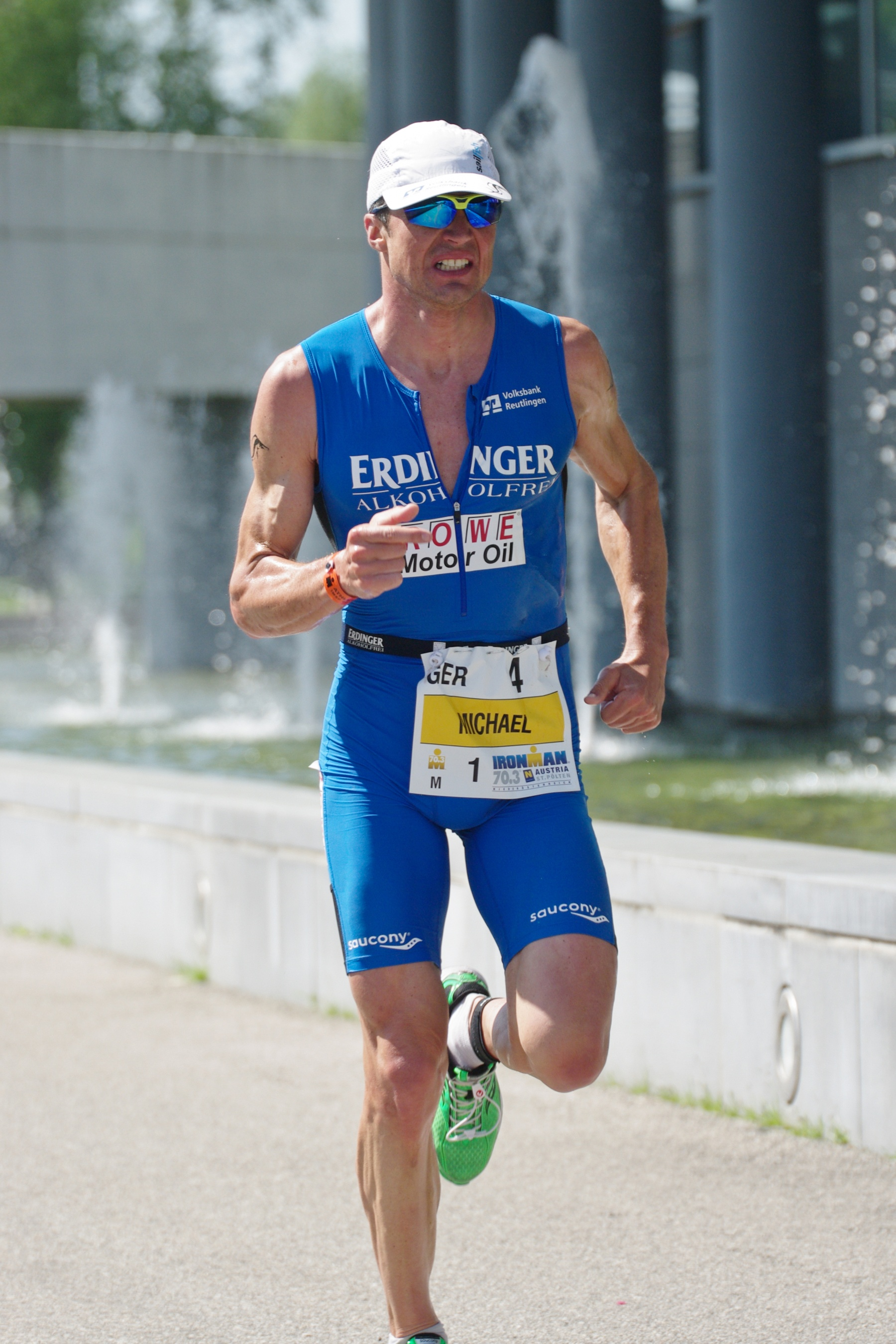 German triathlete Michael Göhner in the Ironman 70.3 Austria on 20 May 2012 in St. Pölten.